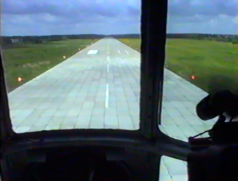 Runway of Jelgava airfield (EVEA) in 1990.